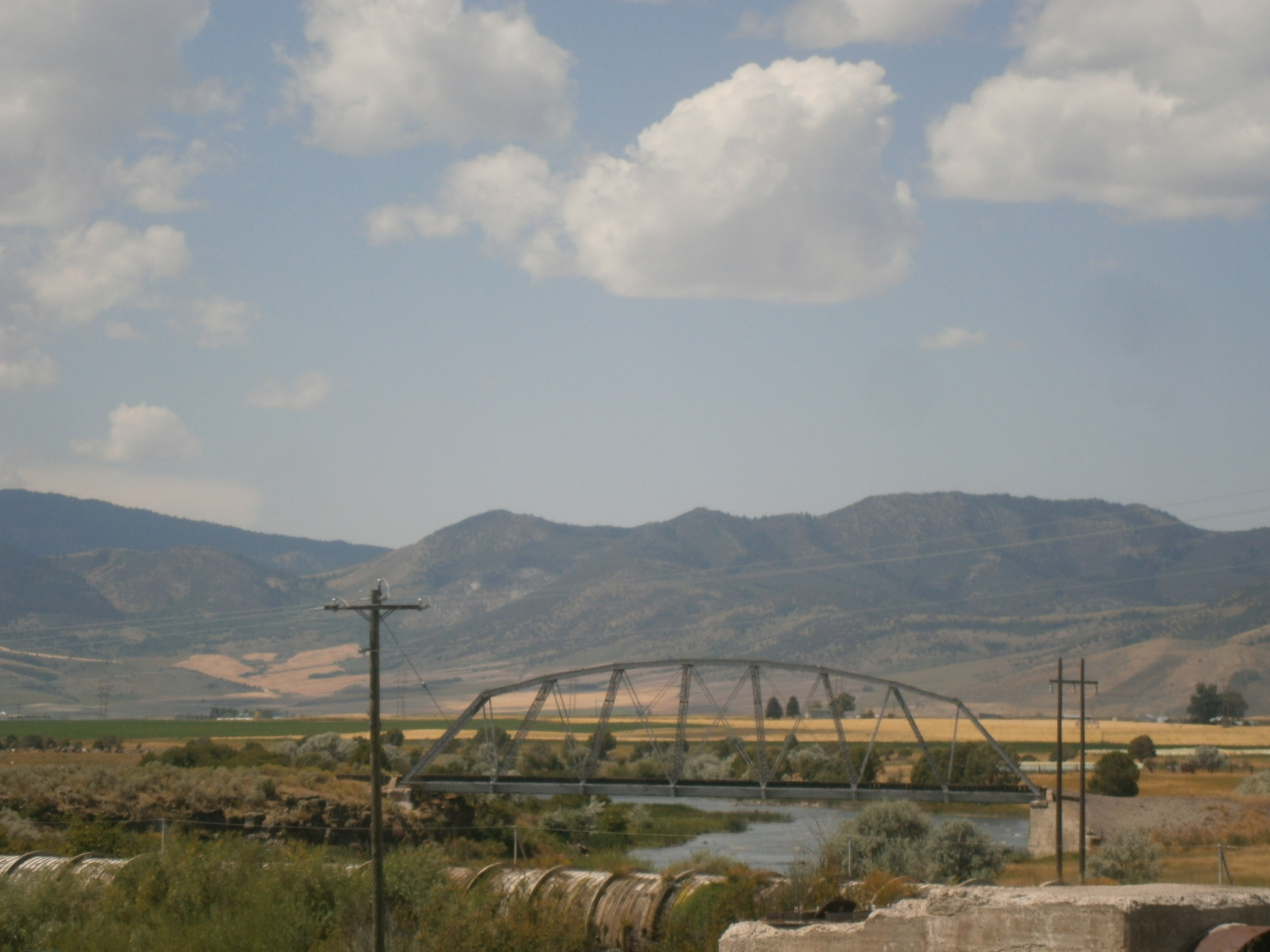 Grace Pegram Truss Railroad Bridge, a historic bridge over the Bear River near Grace, Idaho, United States.